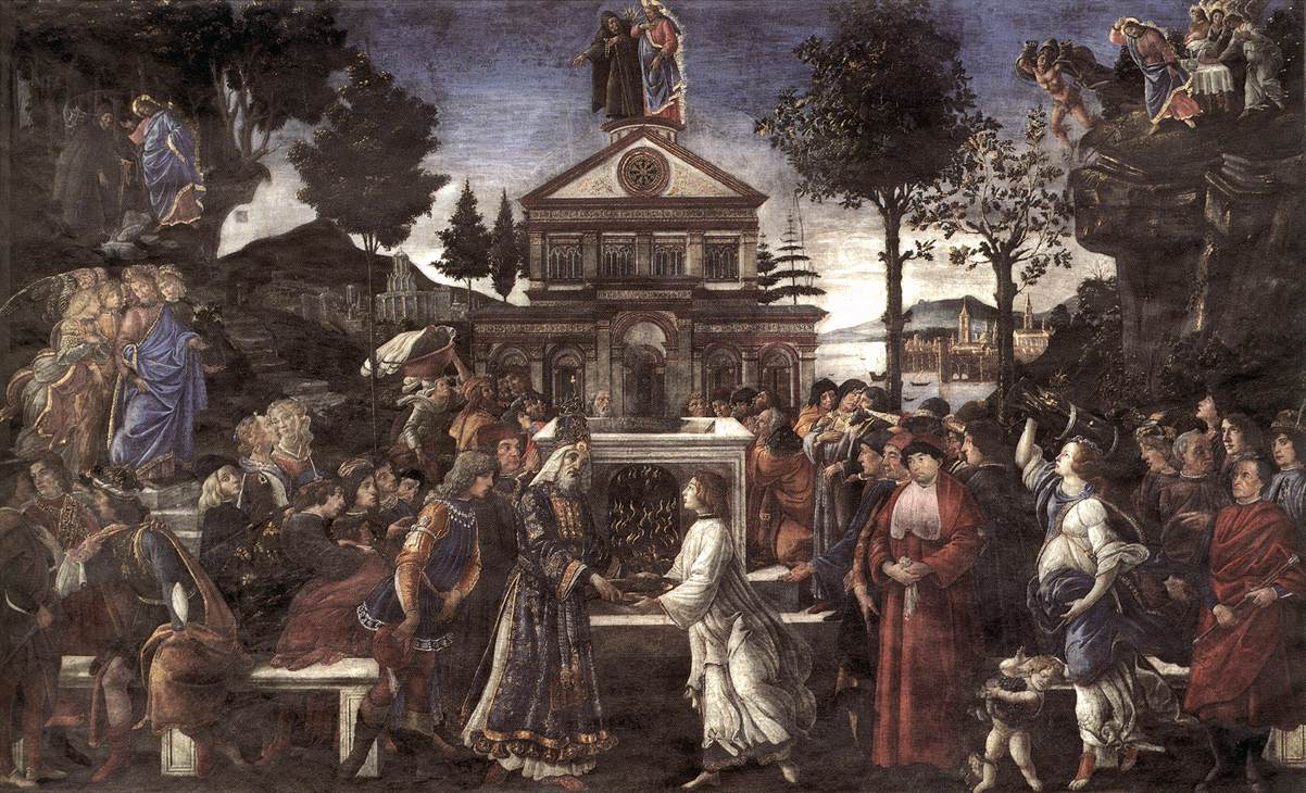 The Temptation of Christ